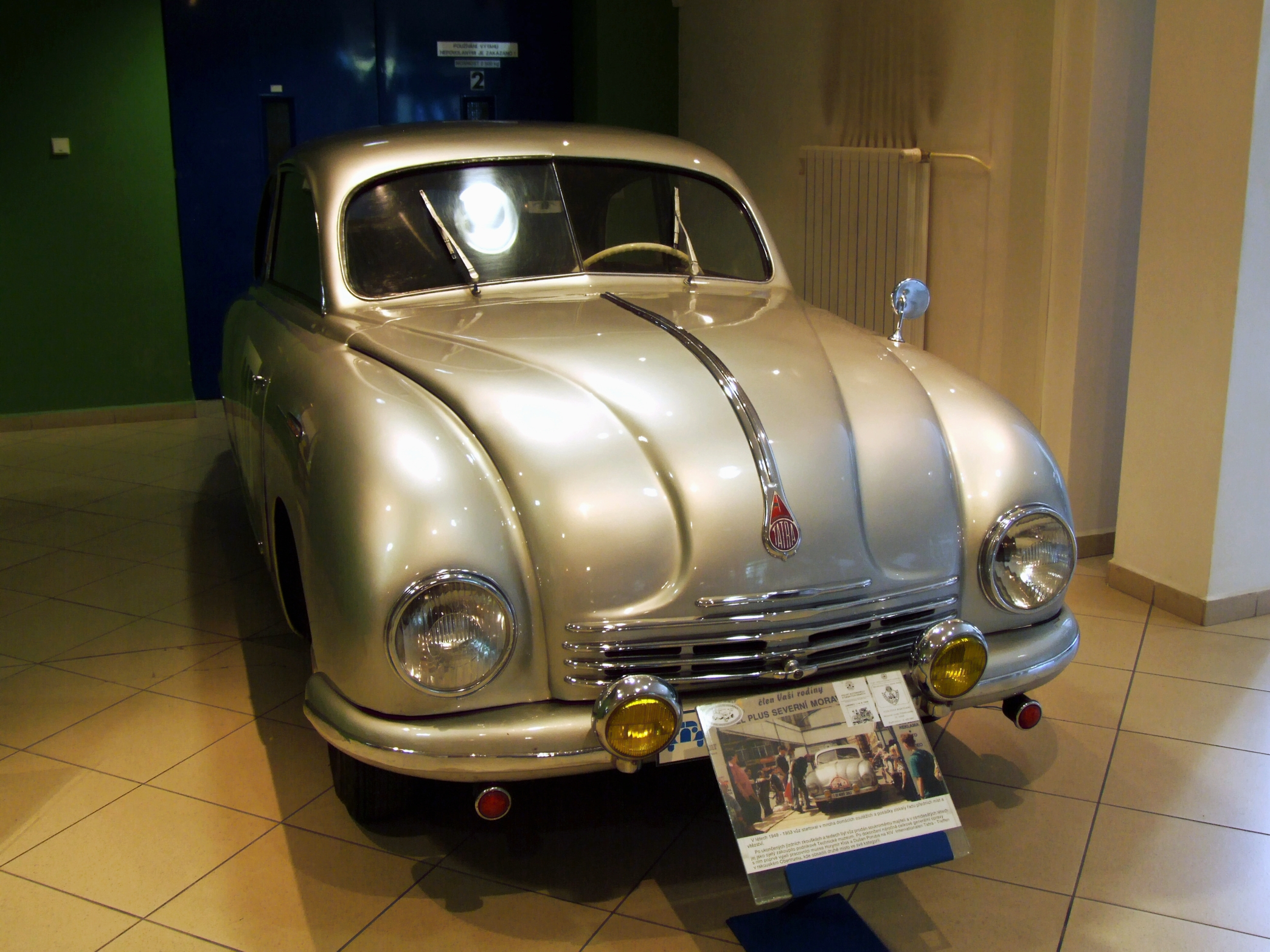 Tatra 601 Monte Carlo (1949 year) in Tatra Museum, Kopřivnice